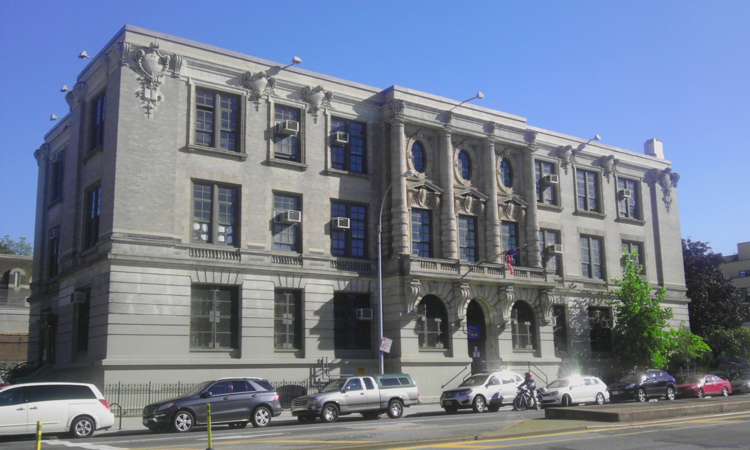 Looking south across 13th Street at PS 124 on a sunny afternoon.